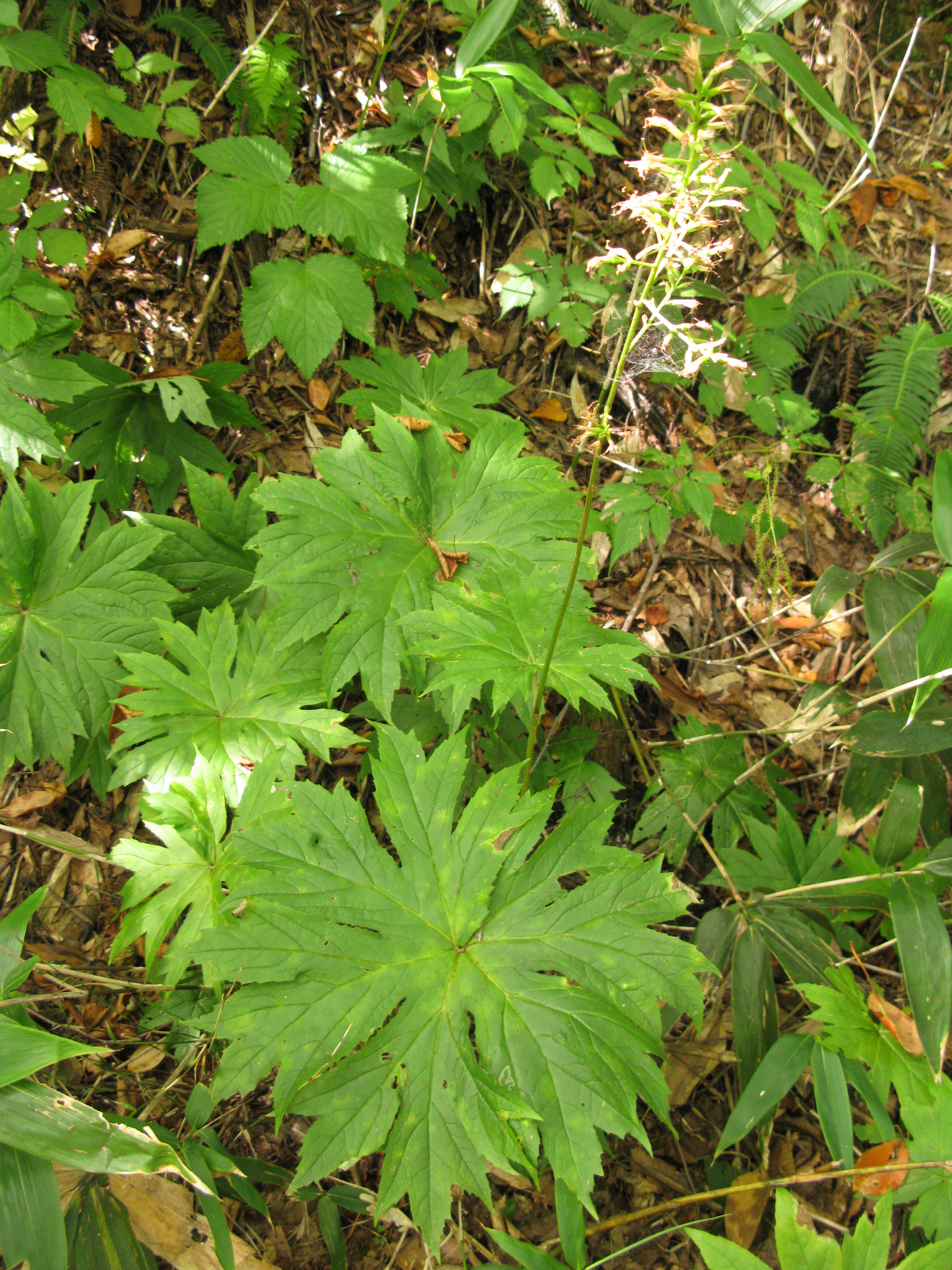 Parasenecio yatabei, Aizu area, Fukushima pref., Japan